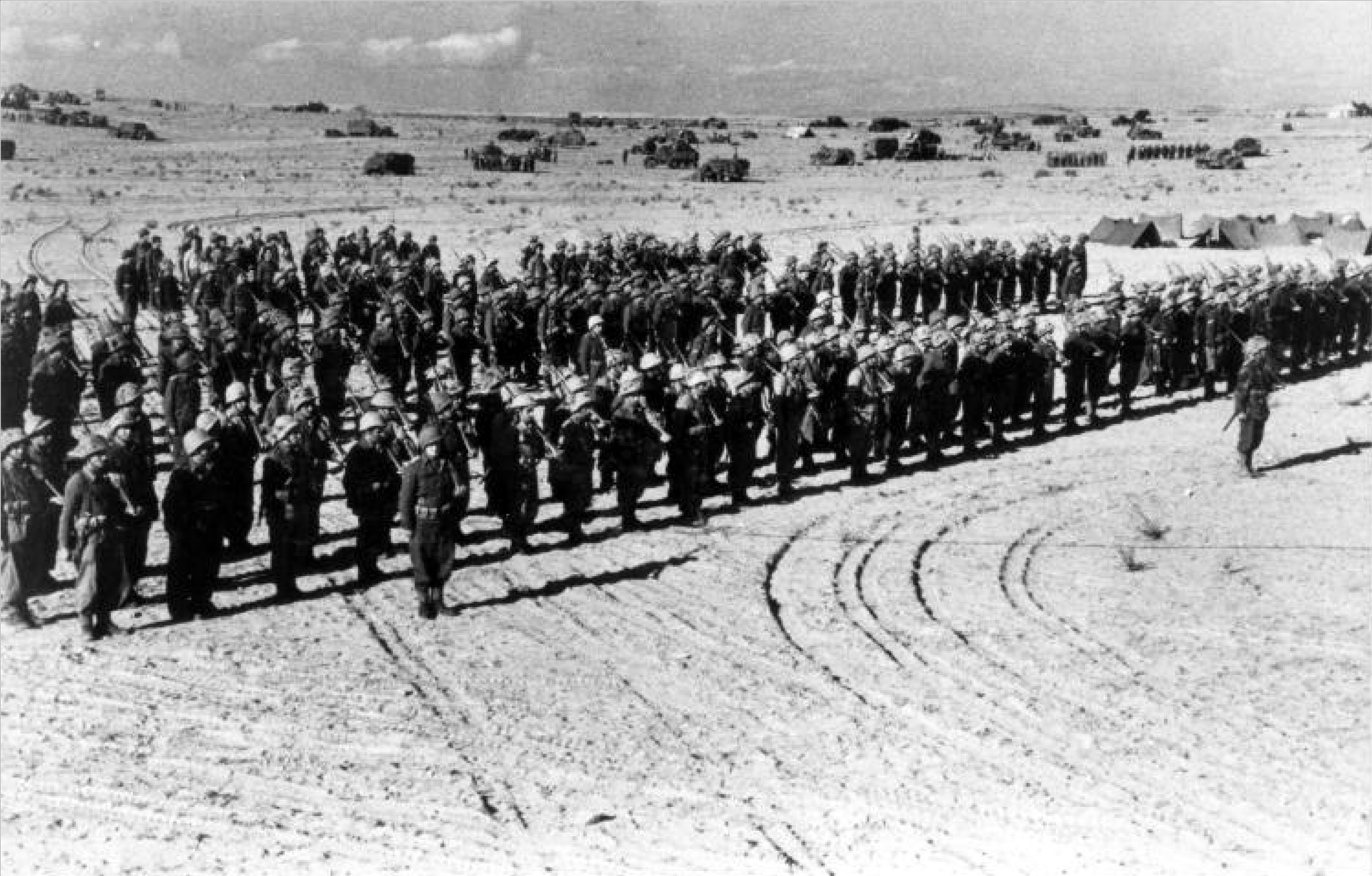 From Palmach archive. Probably Negev Brigade. 1948